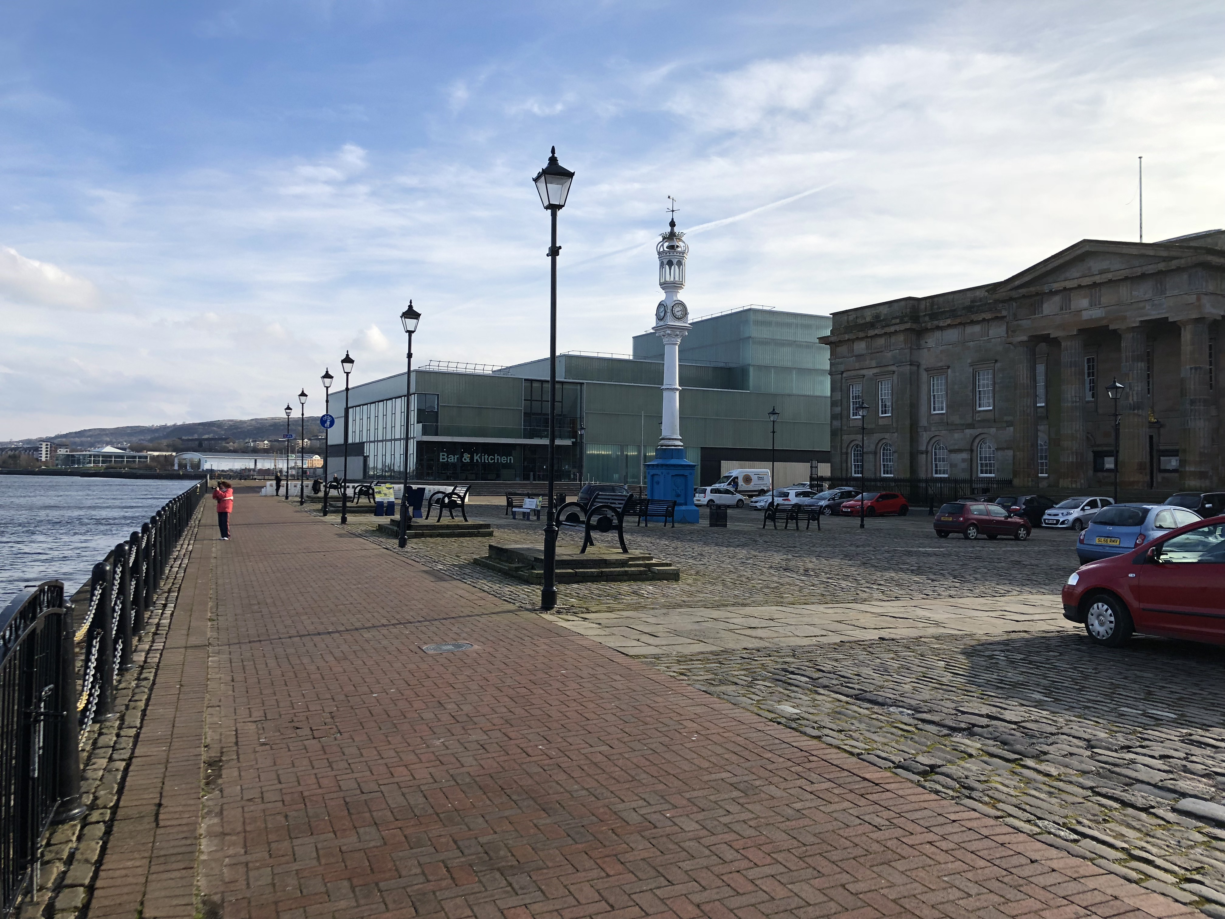 Custom House Quay on the waterfront of Greenock in Scotland, with the Beacon Arts Centre behind the Georgian ornamental light that was originally called the Beacon, and the Customhouse to the right.